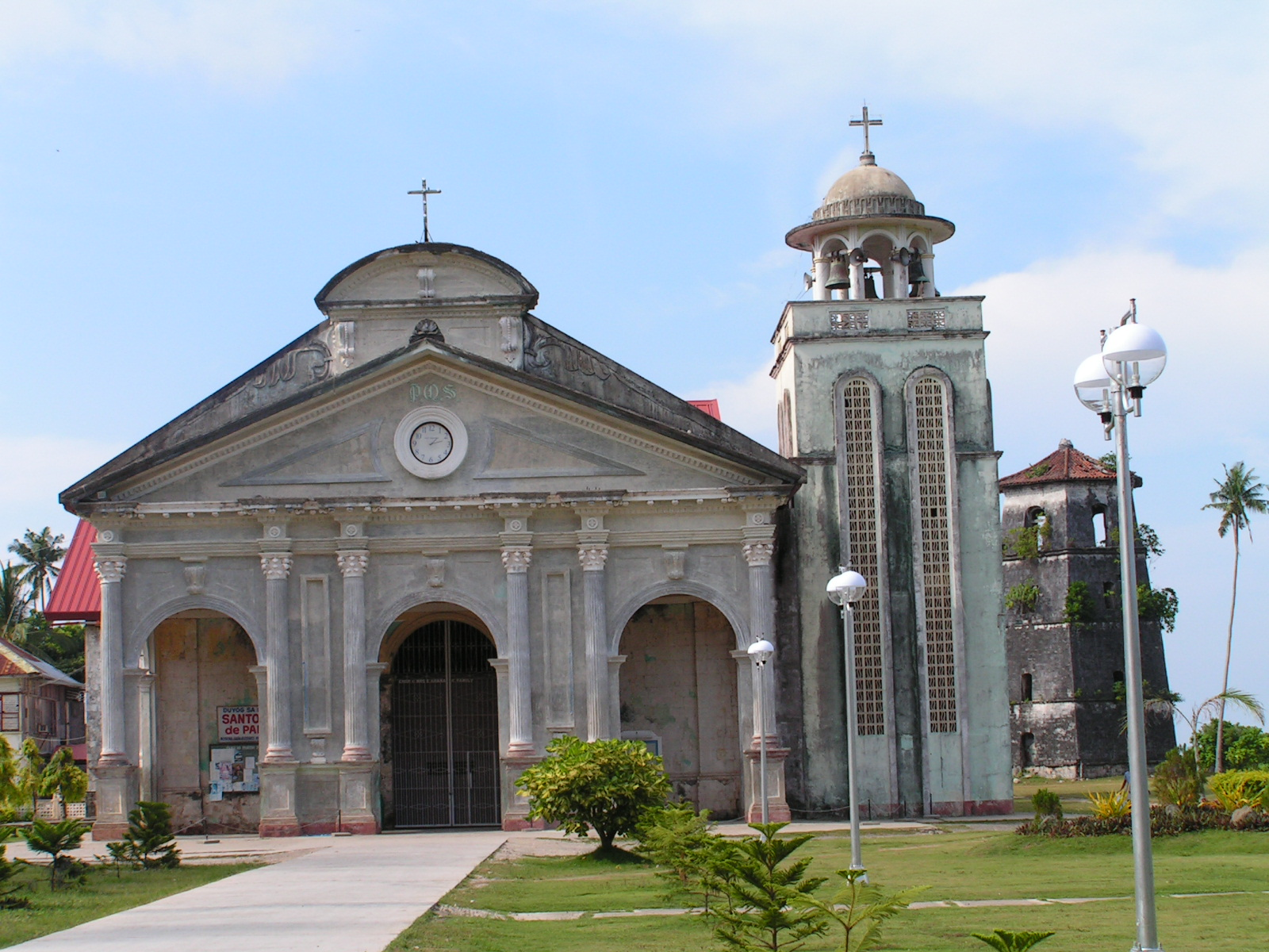 St. Augustine Church, Panglao, Bohol